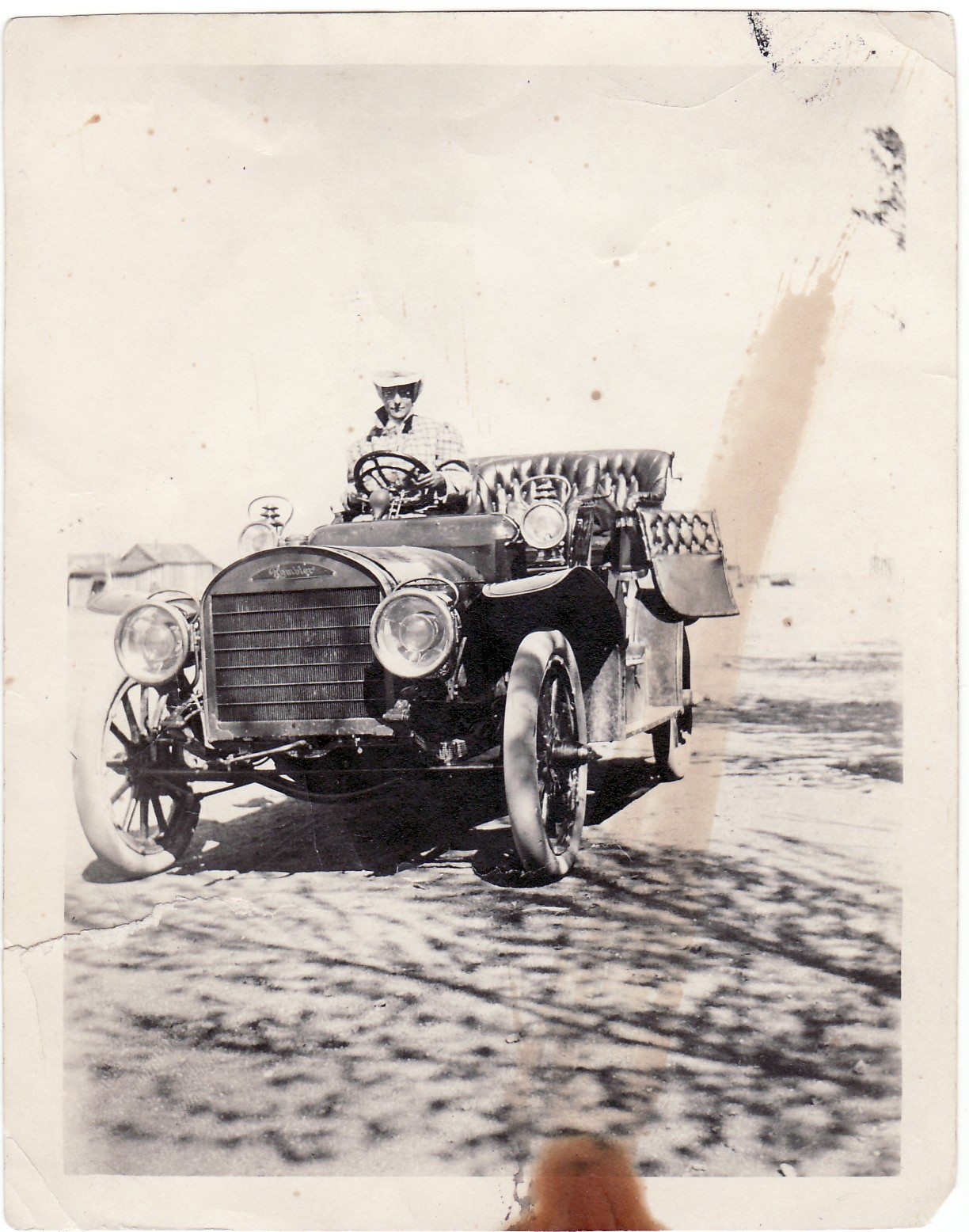 The landscape painter Effie Anderson Smith, behind the wheel of her Rambler near her adobe home at Pearce, AZ., circa 1907.